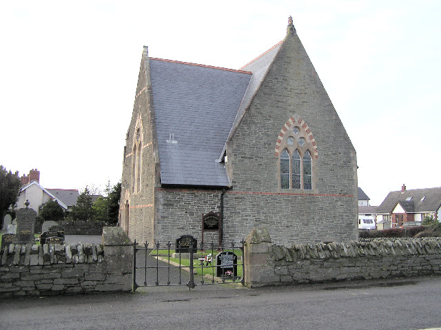 St. John's Church of Ireland, Dunnalong. It is at Bready, County Tyrone and on the main road between Strabane and Londonderry.